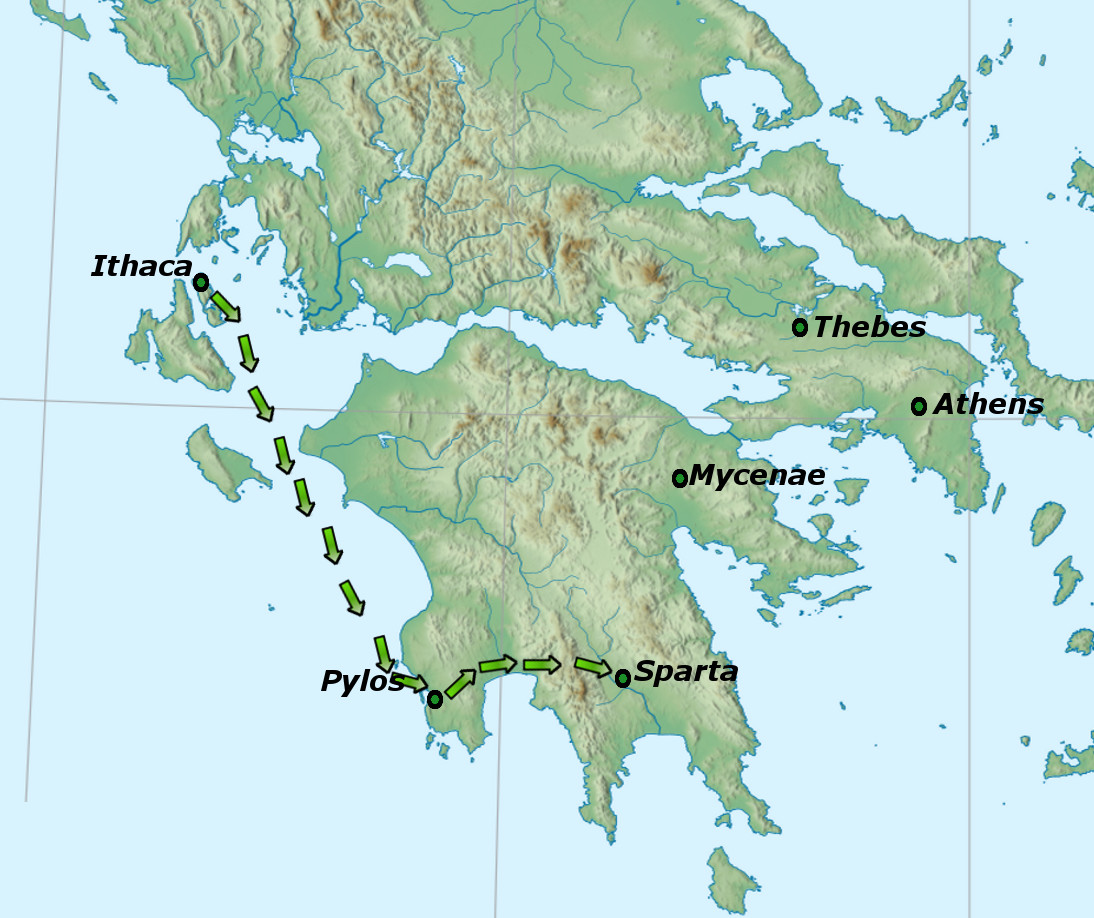 A map showing Telemachus's journey from Ithaca to Pylos and Sparta in the first five books of the Odyssey